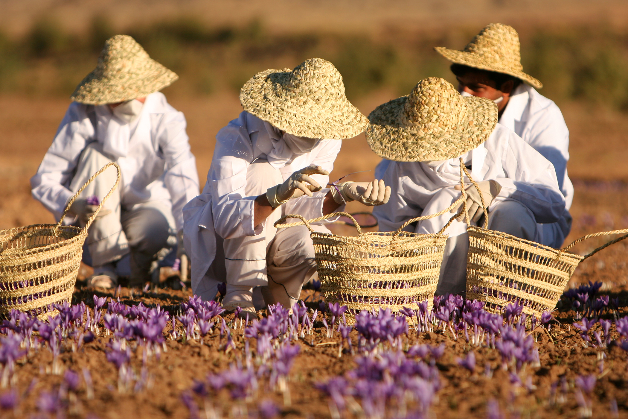 October 30, 2007 - Saffron farm, Torbat heydariyeh, Razavi Khorasan province, Iran - Photo by: Safa Daneshvar - A trip with Faraz Saffron Co. Ltd.